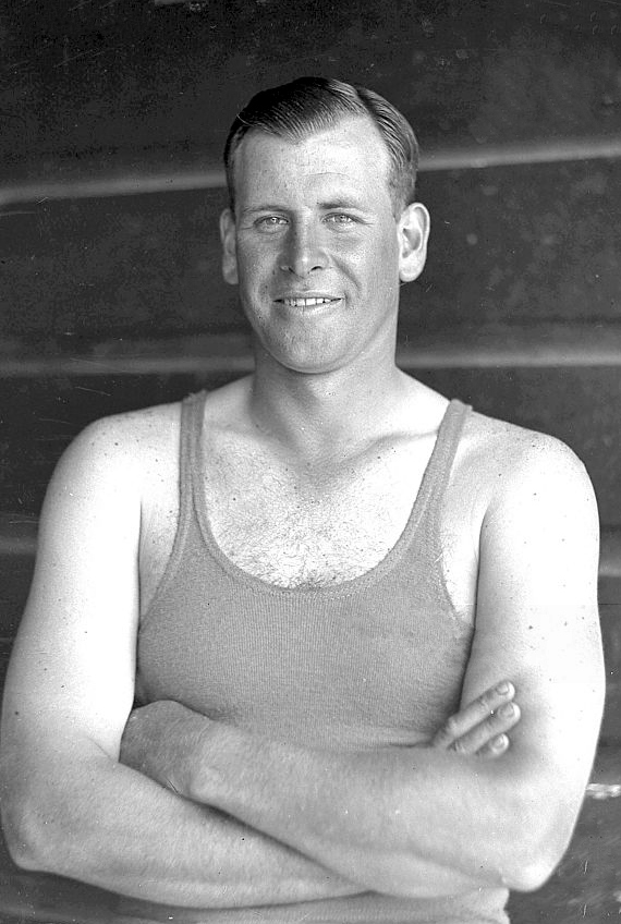 Olympic swimmer Andrew 'Boy' Charlton. Glass Neg. SMH Picture by STAFF